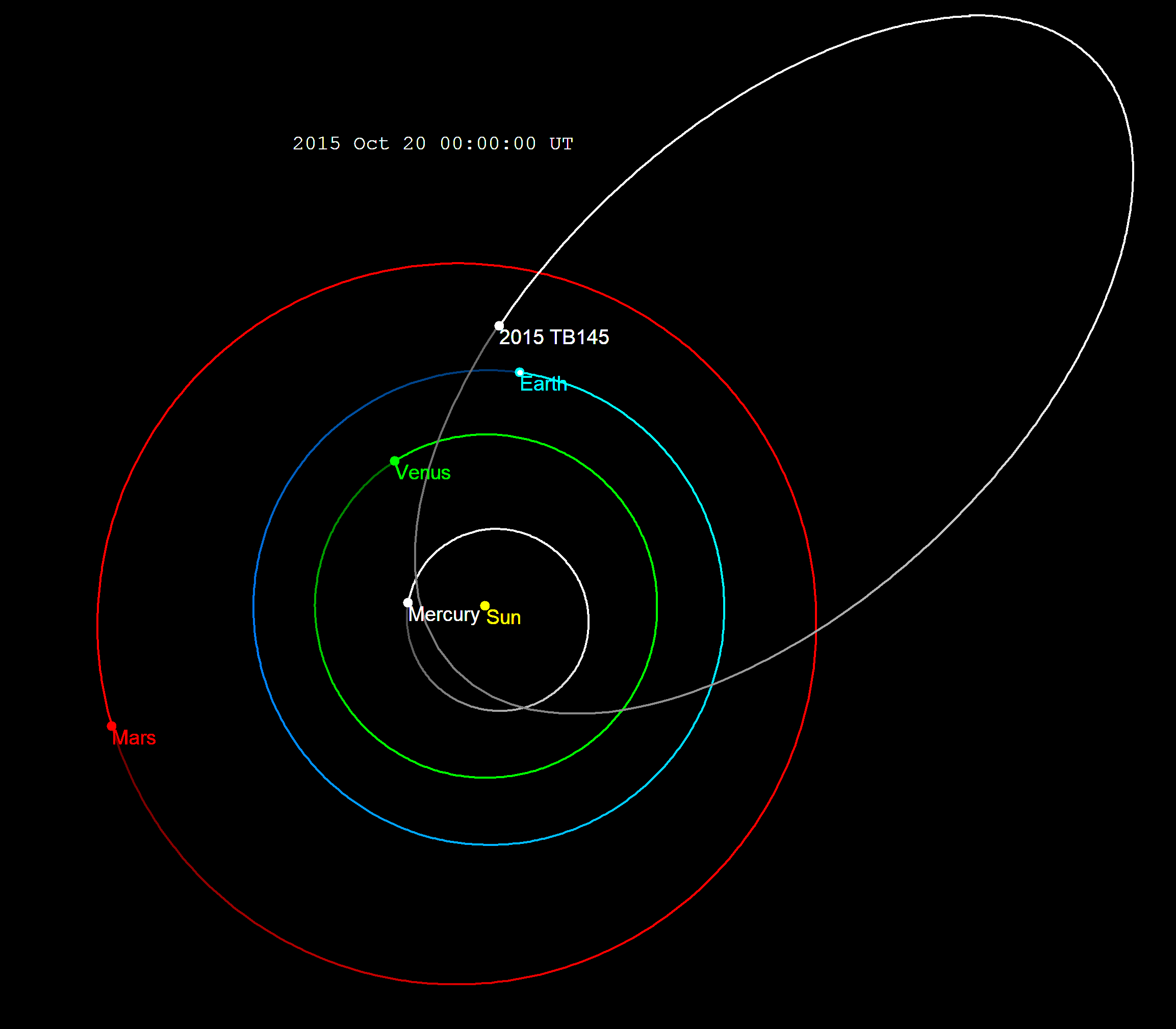 en:2015 TB145 flyby on 10/31/2015